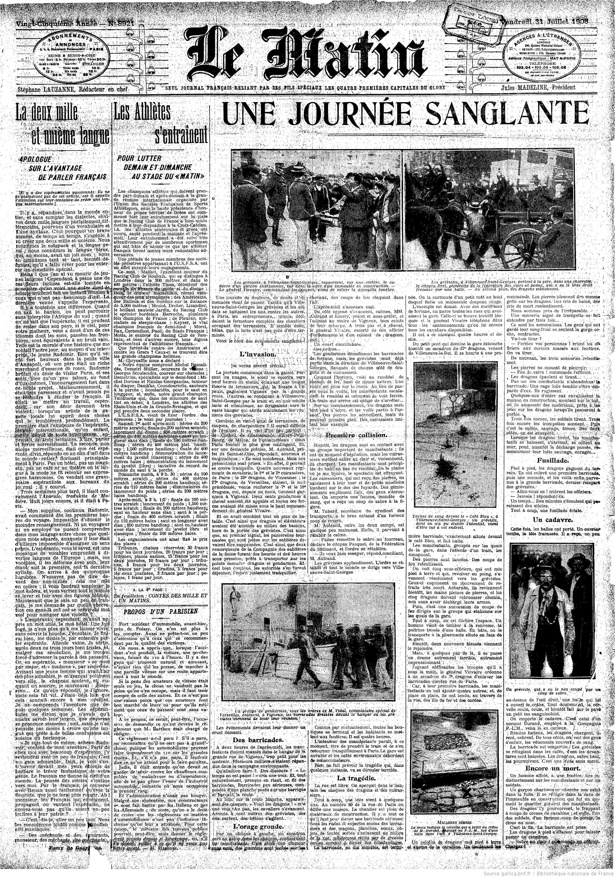 First page of Le Matin concerning the strike of Draveil-Villeneuve-Saint-Georges ("Bloody Day").